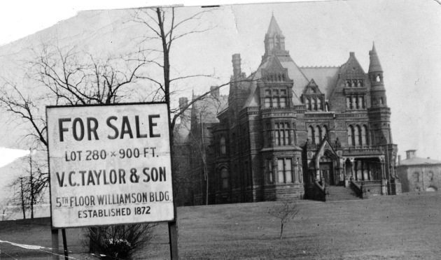 Samuel Andrews home in Cleveland, Ohio. Andrews was one of the founders of Standard Oil along with JD Rockefeller. He sold his shares early...in 1874 and did not reap the benefit the others did. This home was built in 1882-85 and was demolished in 1923.